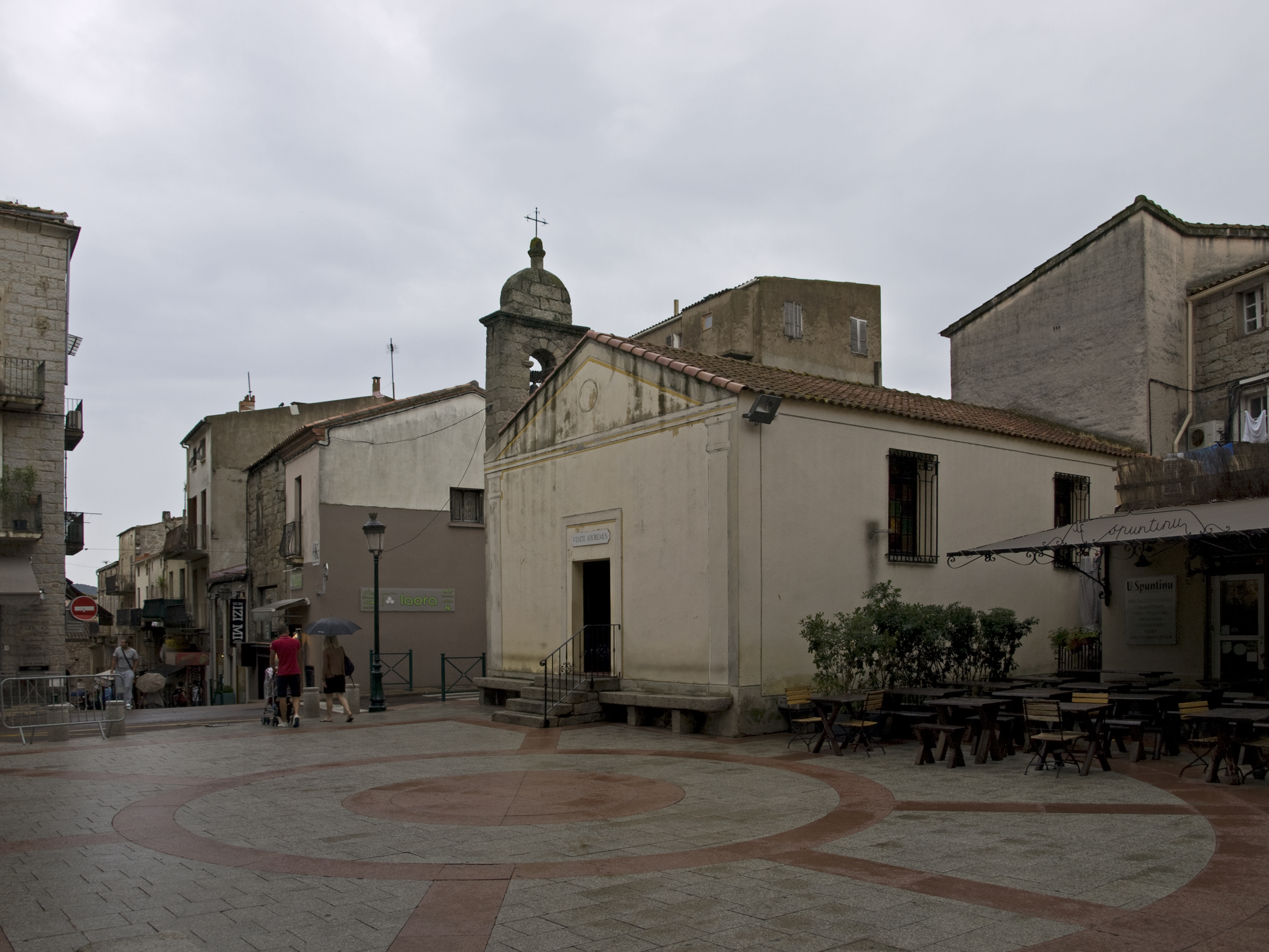 Chapelle de la confrerie Santa Cruci, Porto-Vecchio